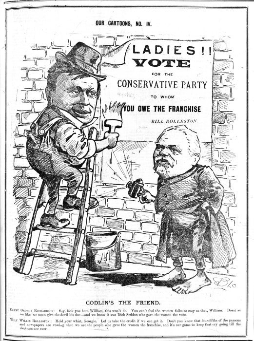 A cartoon published in the New Zealand Mail. Poster at centre in images reads: "Ladies!! Vote for the Conservative Party to whom you owe the franchise. Bill Rolleston."